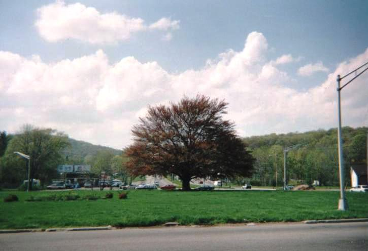 View of European beech tree on the Ledgewood Circle in Ledgewood, NJ (Roxbury Township), Spring 1994. View is NW, with Route 46 East entering the circle, and the termination of Route 10 West in the foreground.